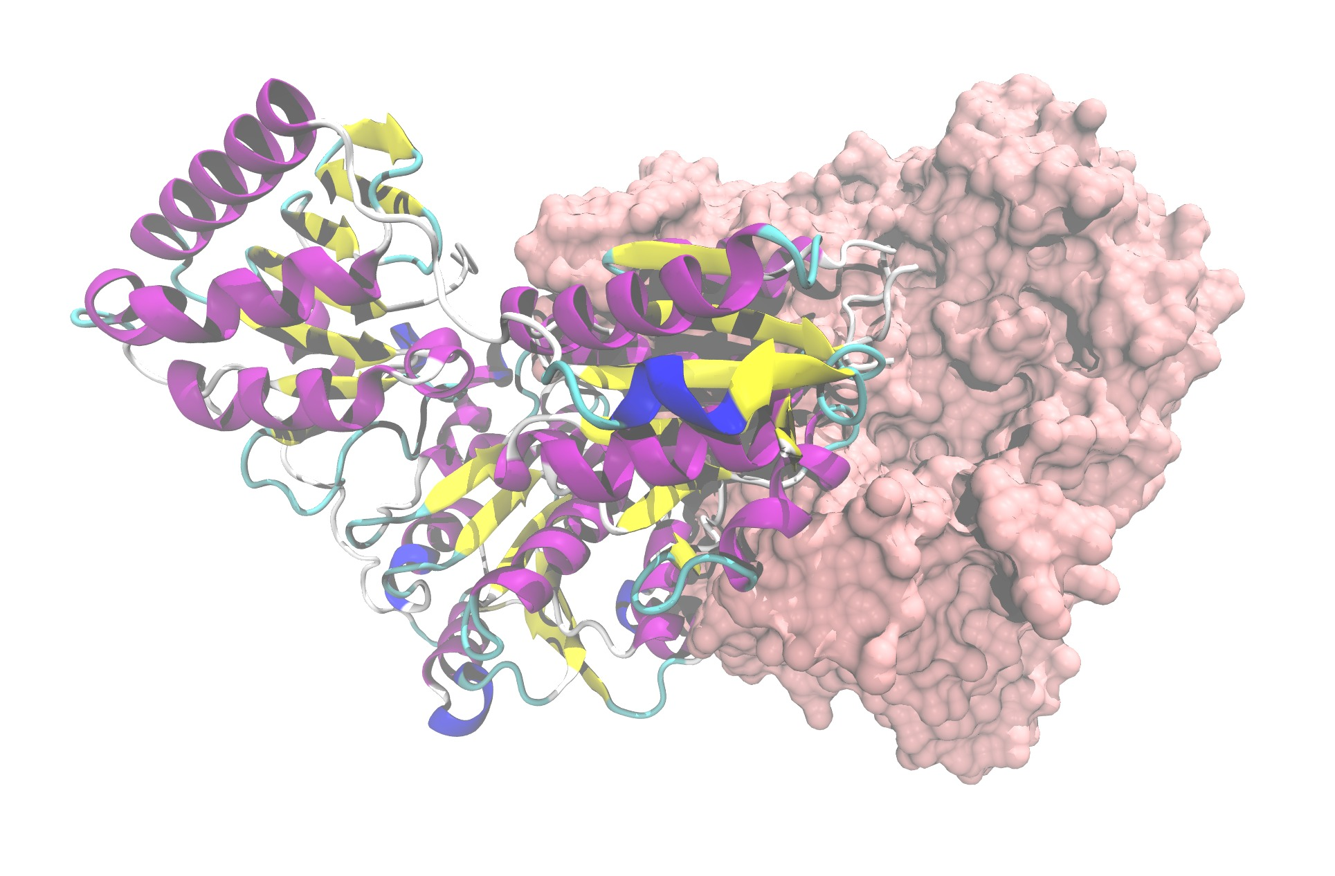 Ribbon/surface model of baker yeast's pyruvate decarboxylase dimer, after PDB 1PVD. Ref.:P.Arjunan et al. (1996). Crystal structure of the thiamin diphosphate-dependent enzyme pyruvate decarboxylase from the yeast Saccharomyces cerevisiae at 2.3 A resolution. J Mol Biol, 256, 590-600. PMID 8604141 This 3D molecular image was created with VMD